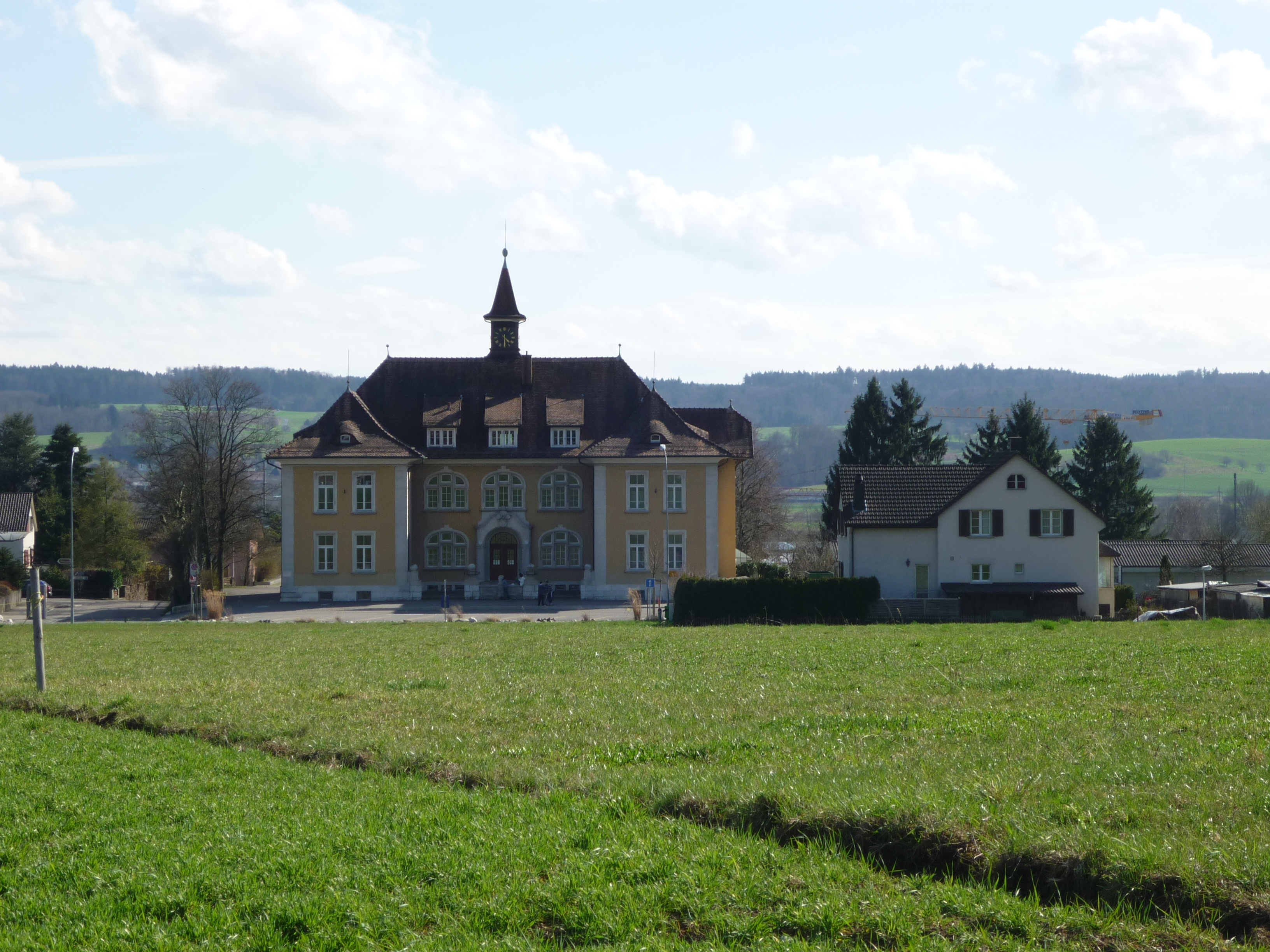 Primary school building in Bellach, Canton of Solothurn, Switzerland.